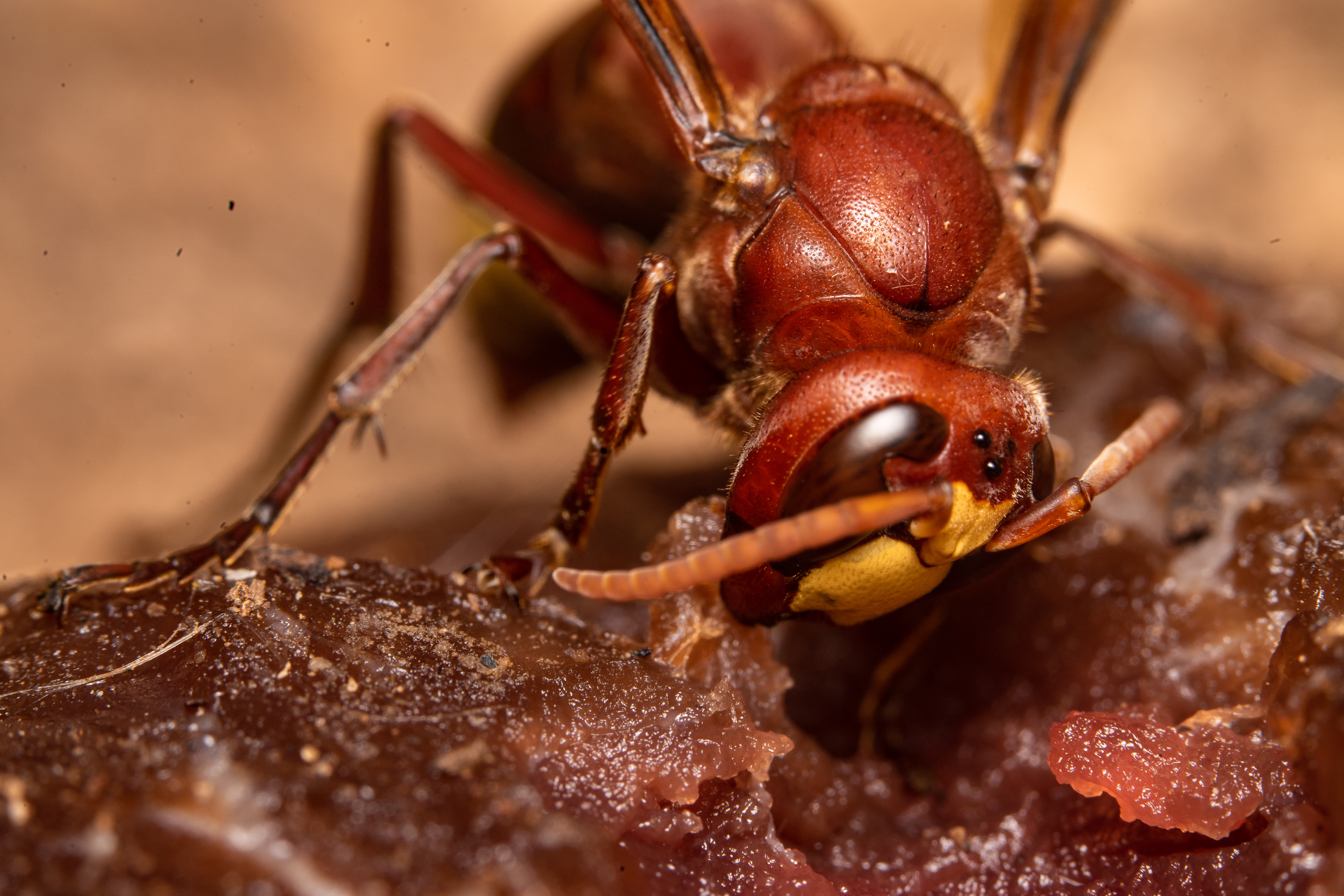 Vespa orientalis | Oriental hornet